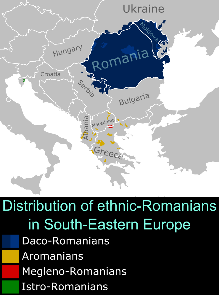 Distribution of ethnic-Romanians in South-Eastern Europe